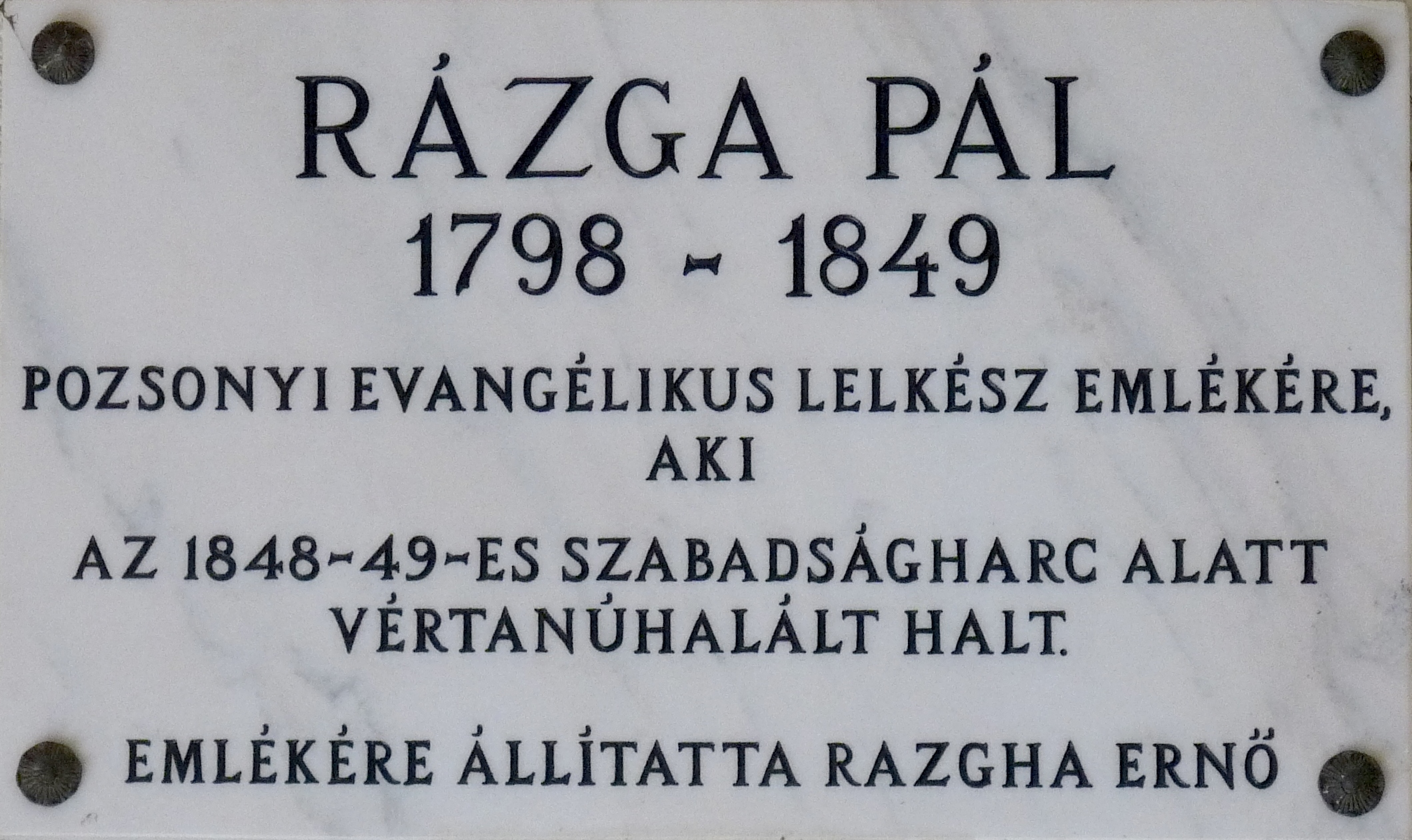 Pál Rázga commemorative plaque in Budapest District III, Dévai Bíró Mátyás Square No 1.